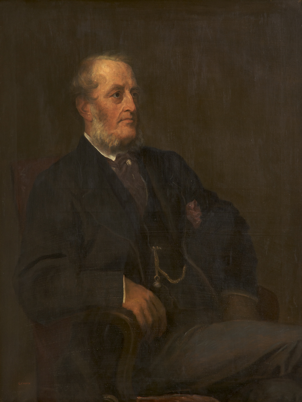 Watts, George Frederic; Thomas Wrigley (1808-1880); Bury Art Museum